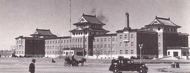 Kwantung Army Headquarters in Hsinking